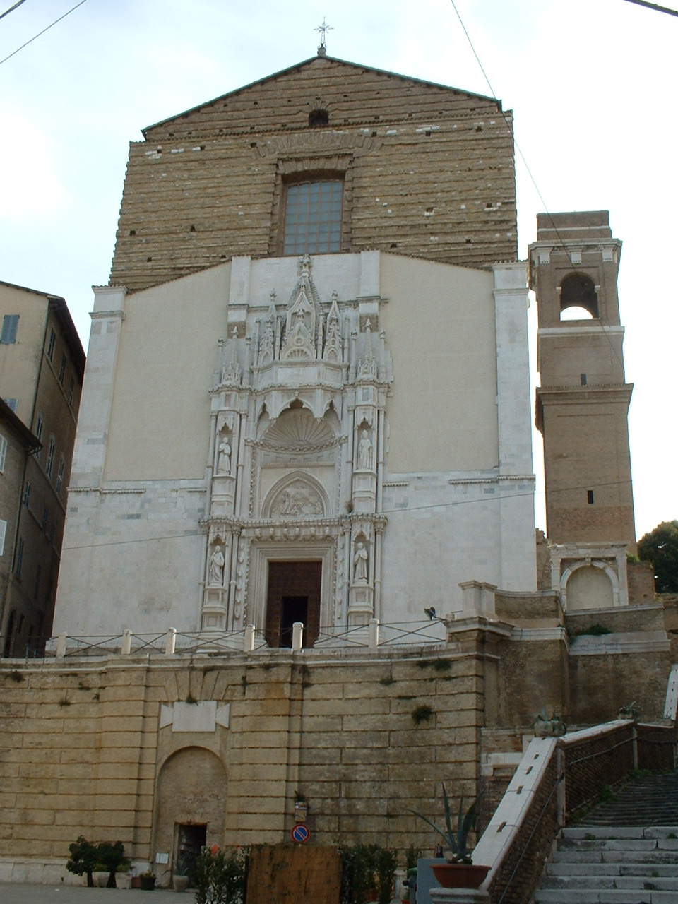 Ancona church of S. Francesco of stairs. Foto personale. Licenza